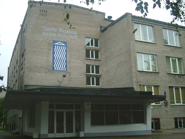 Narva College of the University of Tartu, Narva 2006